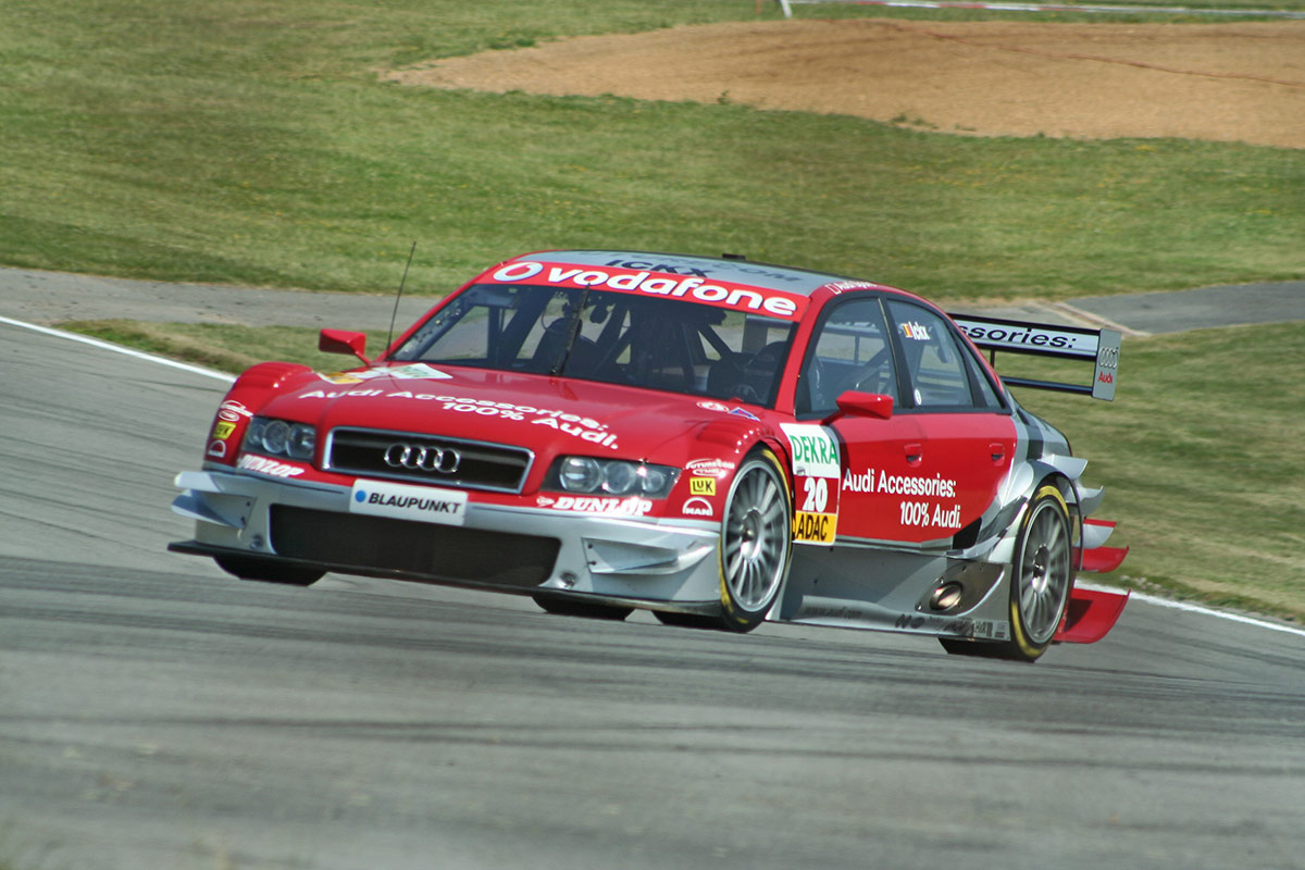 Vanina Ickx driving for Audi in the 2006 Deutsche Tourenwagen Masters season.